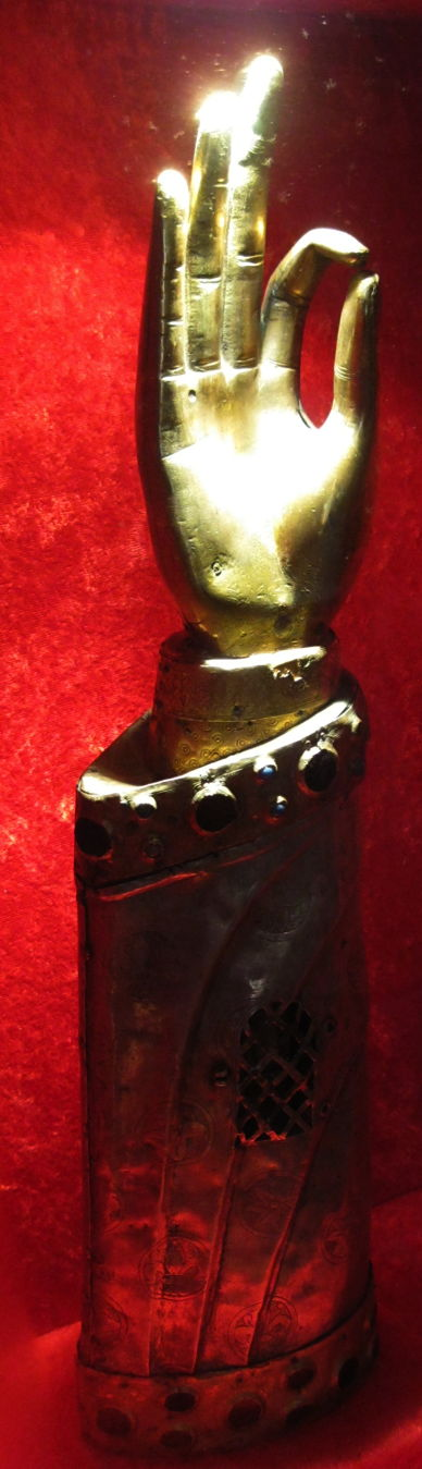 Picture of the reliquary] of Louis IX of France containing a piece of bone that belong to the arm of this king. The holy relic is included in a box of wood and a box of silver and golden copper with precious gemstone. This reliqury was brought in chapel of Castelnau-Bretenoux castle by Louise de Bretagne for her marriage with Guy de Castelnau.